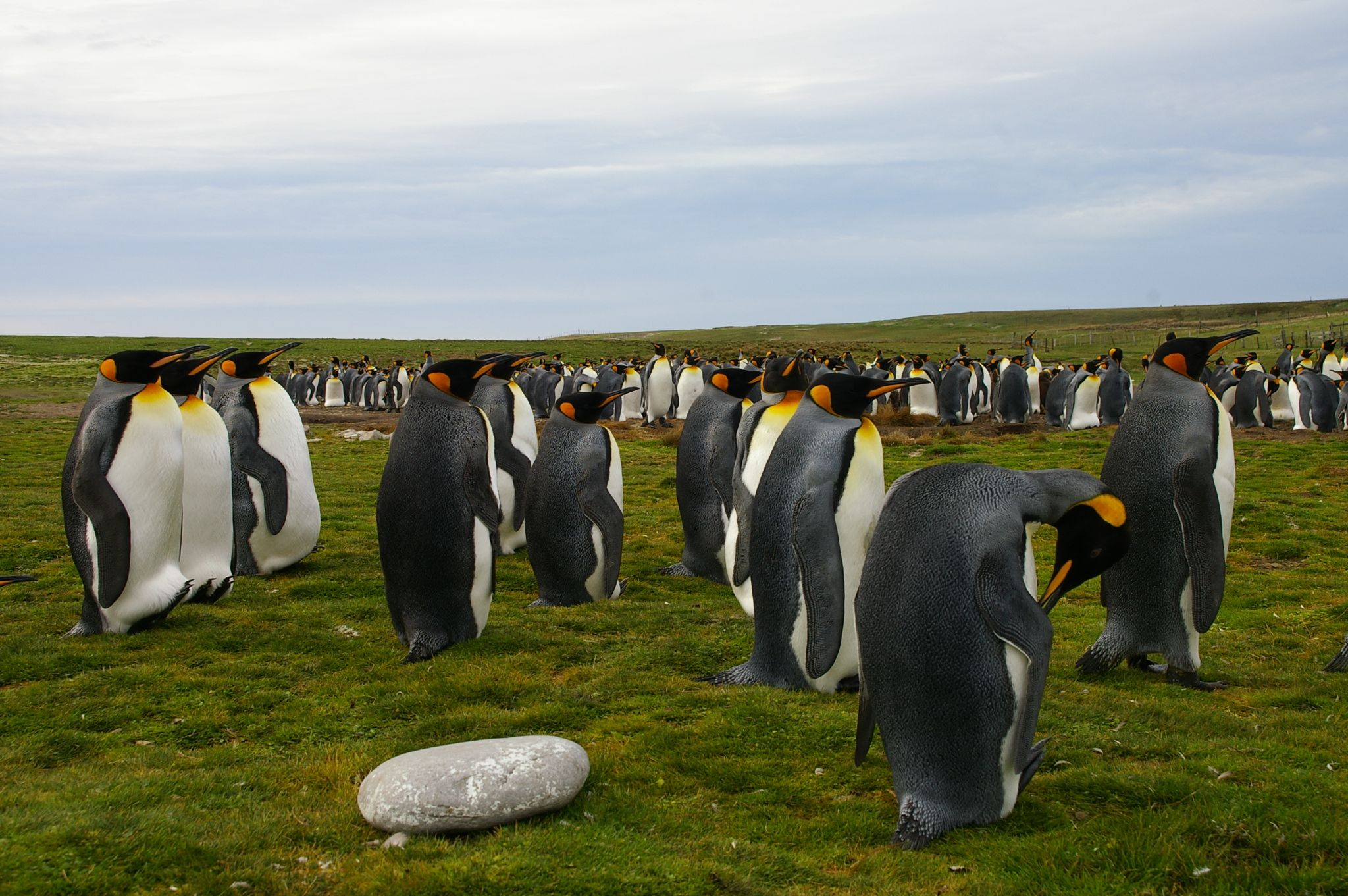 King Penguins (Aptenodytes patagonicus patagonicus), East Falkland